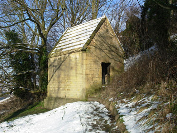 Bolsover Cundy House The Cundy House is a small conduit house built in the seventeenth century to provide a water supply to Bolsover Castle.